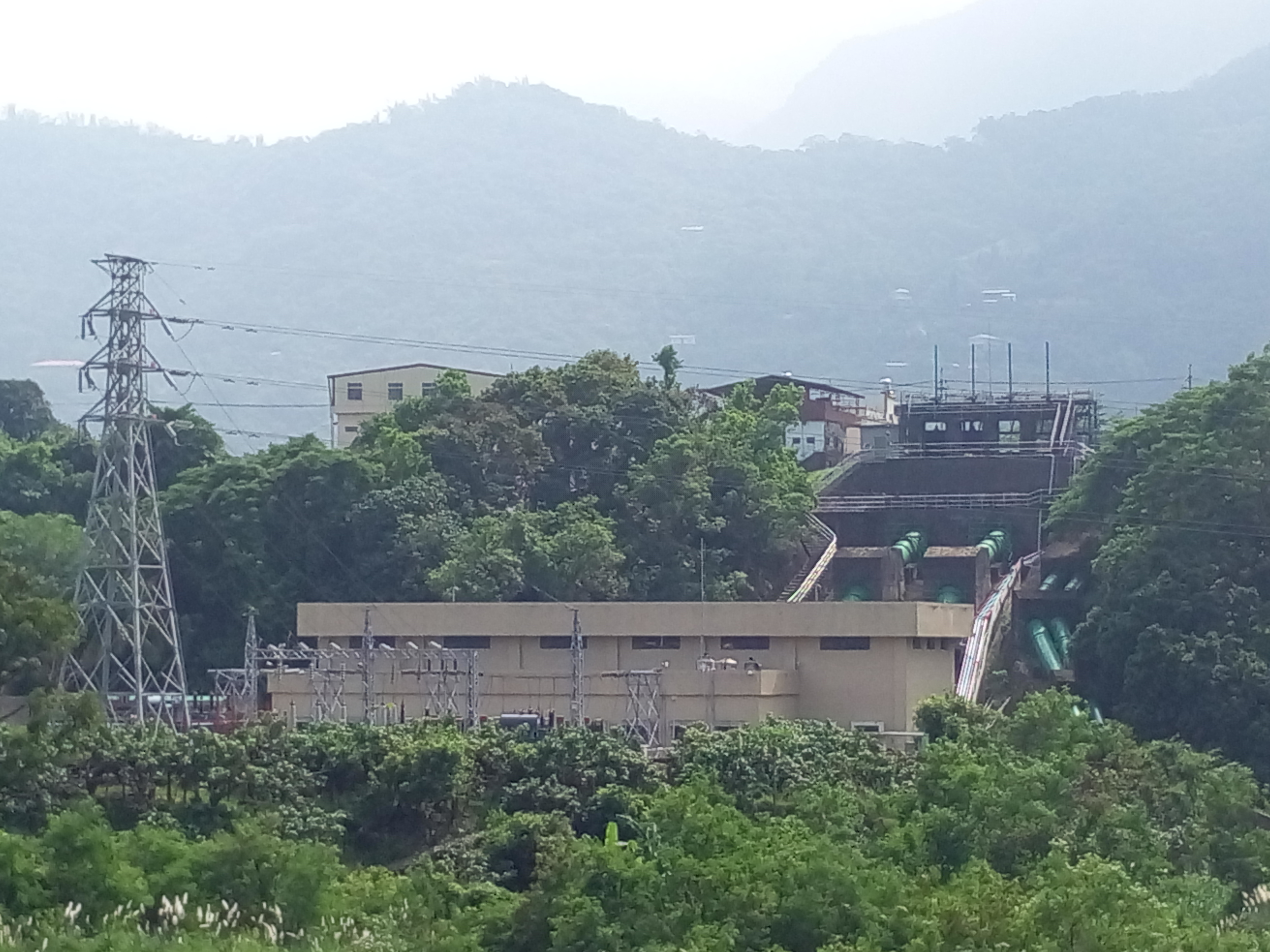 Kao-Ping Hydropower Plant Liouguei Unit